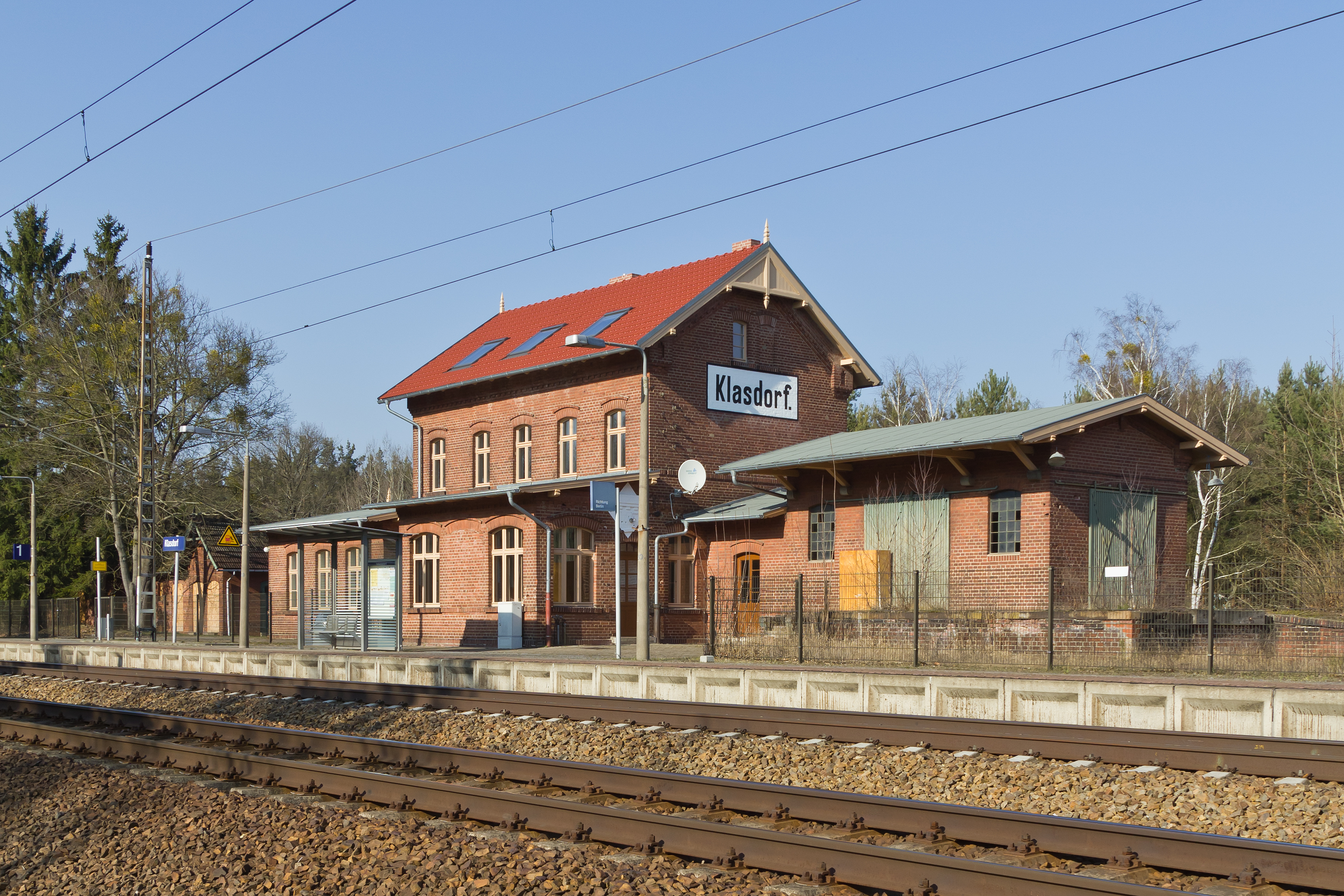 Train stop Klasdorf near Baruth/Mark, Brandenburg, Germany.